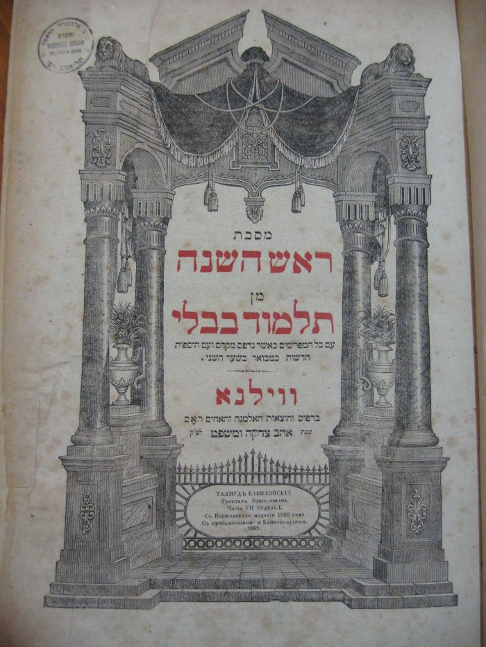 Tractate of ROSH HASHANA, ROM PRESS , VILNA Divrei Shaul by Rabbi Natanzon This work or image is now in the public domain because its term of copyright has expired in Israel. According to Israel's copyright statute from 2007 (translation), a work is released to the public domain on 1 January of the 71st year after the author's death (paragraph 38 of the 2007 statute) with the following exceptions: A photograph taken on 24 May 2008 or earlier — the old British Mandate act applies, i.e. on 1 January of the 51st year after the creation of the photograph (paragraph 78(i) of the 2007 statute, and paragraph 21 of the old British Mandate act). If the copyrights are owned by the State, not acquired from a private person, and there is no special agreement between the State and the author — on 1 January of the 51st year after the creation of the work (paragraphs 36 and 42 in the 2007 statute). See also category: PD Israel & British Mandate. . This work or image is now in the public domain because its term of copyright has expired in Israel. According to Israel's copyright statute from 2007 (translation), a work is released to the public domain on 1 January of the 71st year after the author's death (paragraph 38 of the 2007 statute) with the following exceptions: A photograph taken on 24 May 2008 or earlier — the old British Mandate act applies, i.e. on 1 January of the 51st year after the creation of the photograph (paragraph 78(i) of the 2007 statute, and paragraph 21 of the old British Mandate act). If the copyrights are owned by the State, not acquired from a private person, and there is no special agreement between the State and the author — on 1 January of the 51st year after the creation of the work (paragraphs 36 and 42 in the 2007 statute). See also category: PD Israel & British Mandate. .